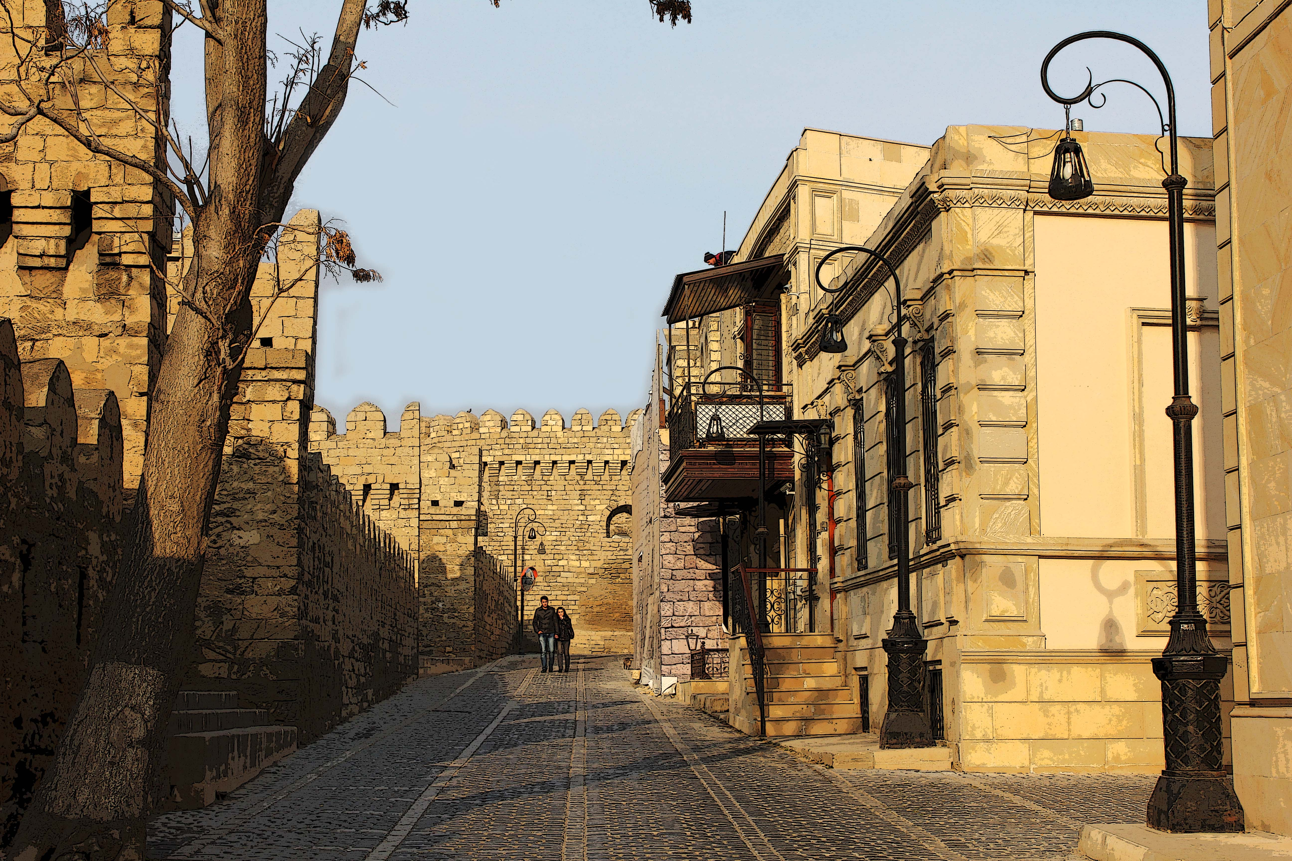 İcheri sheher (Old City) part of Baku city, Azerbaijan